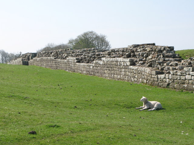 Birdoswald (Banna) - the south wall and lamb